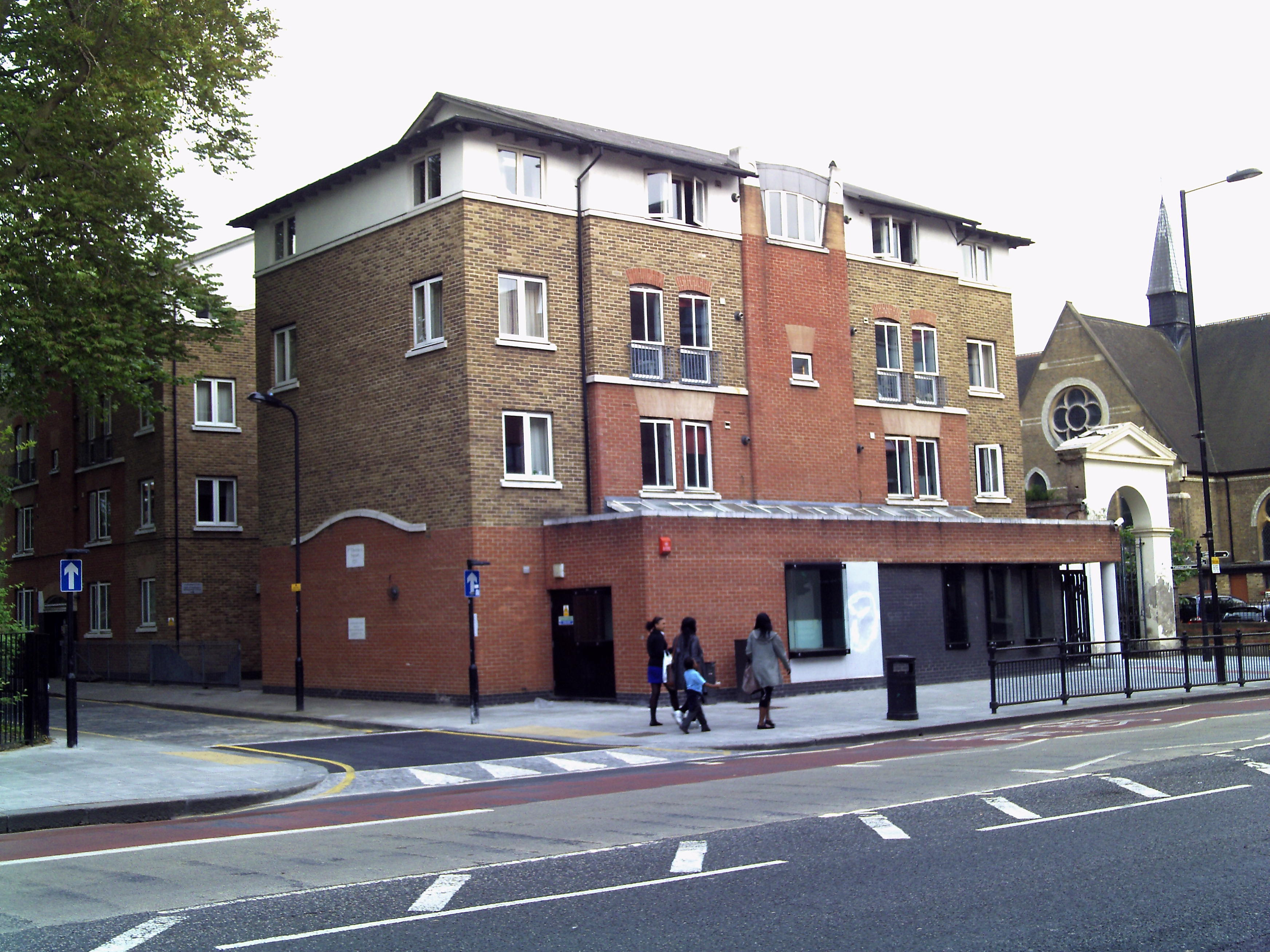 Cordwainers Court, halls of residence for London College of Fashion, Mare Street.